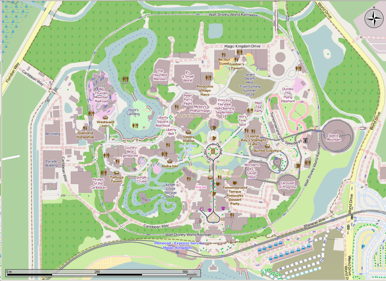 Open Street Map of Walt Disney World in Orlando, Florida. This map shows the Magic Kingdom portion of the park. Image generated from the Marble program, cropped with GIMP.